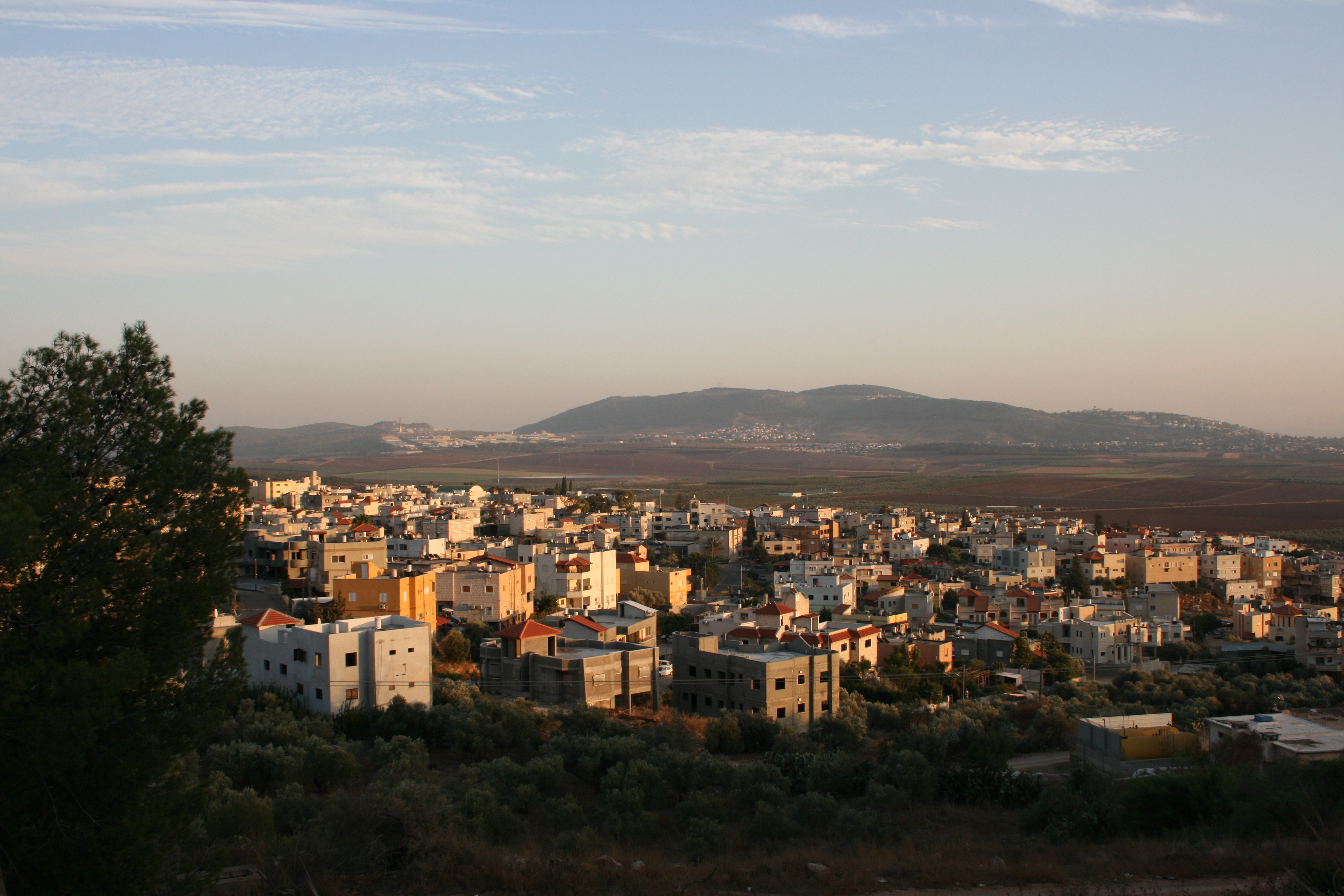 View of Iksal looking southwest from the gravel road that runs behind the town to the east of it.